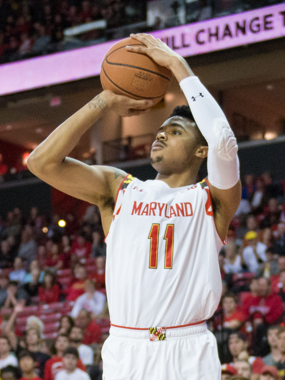 Guard Jared Nickens hits a 3 pointer during Maryland's 96-55 win over St. Francis at Xfinity Center on Dec. 4, 2015.